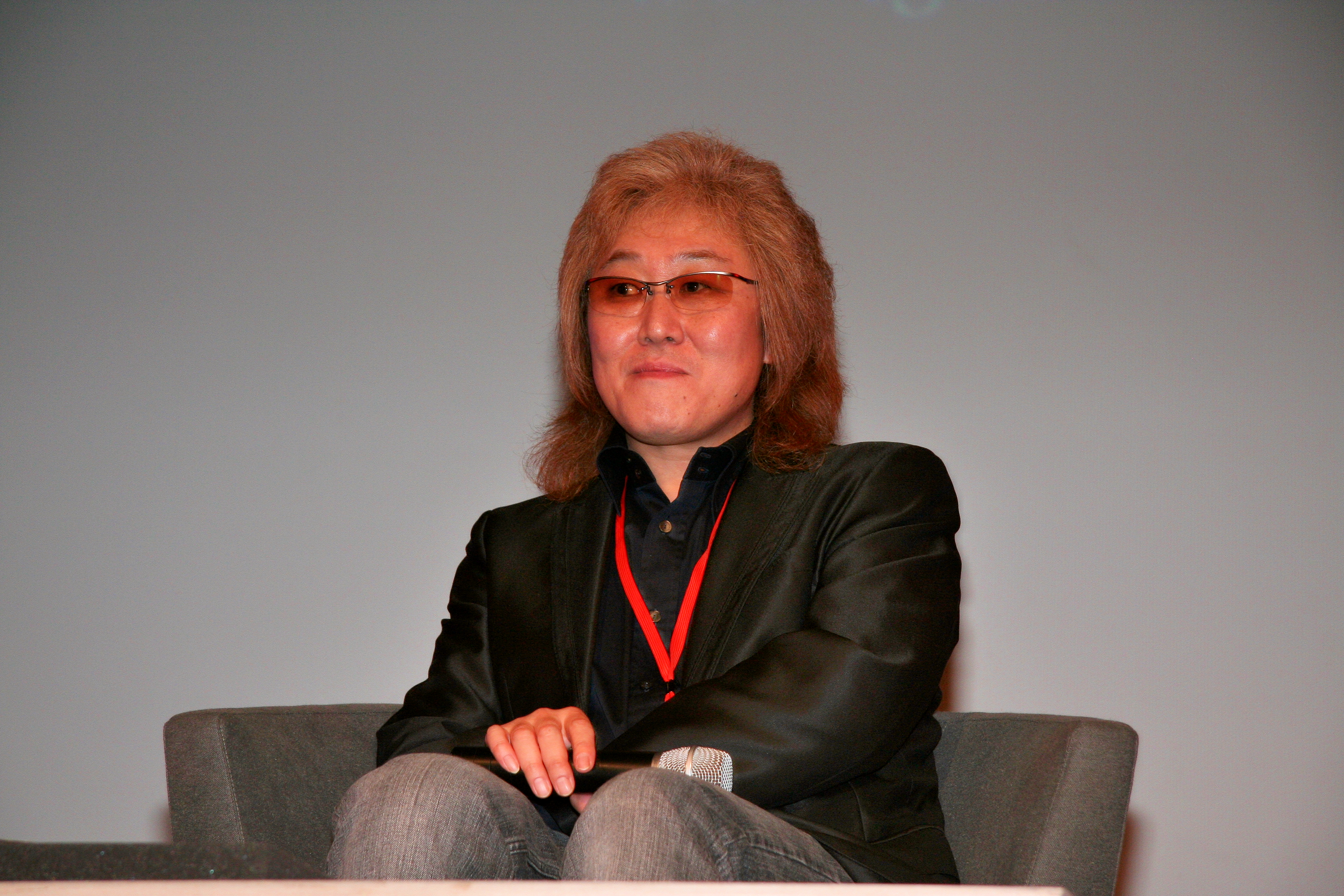 Conference with Kenji Kawai at Manga Expo 2007 (Paris, France).